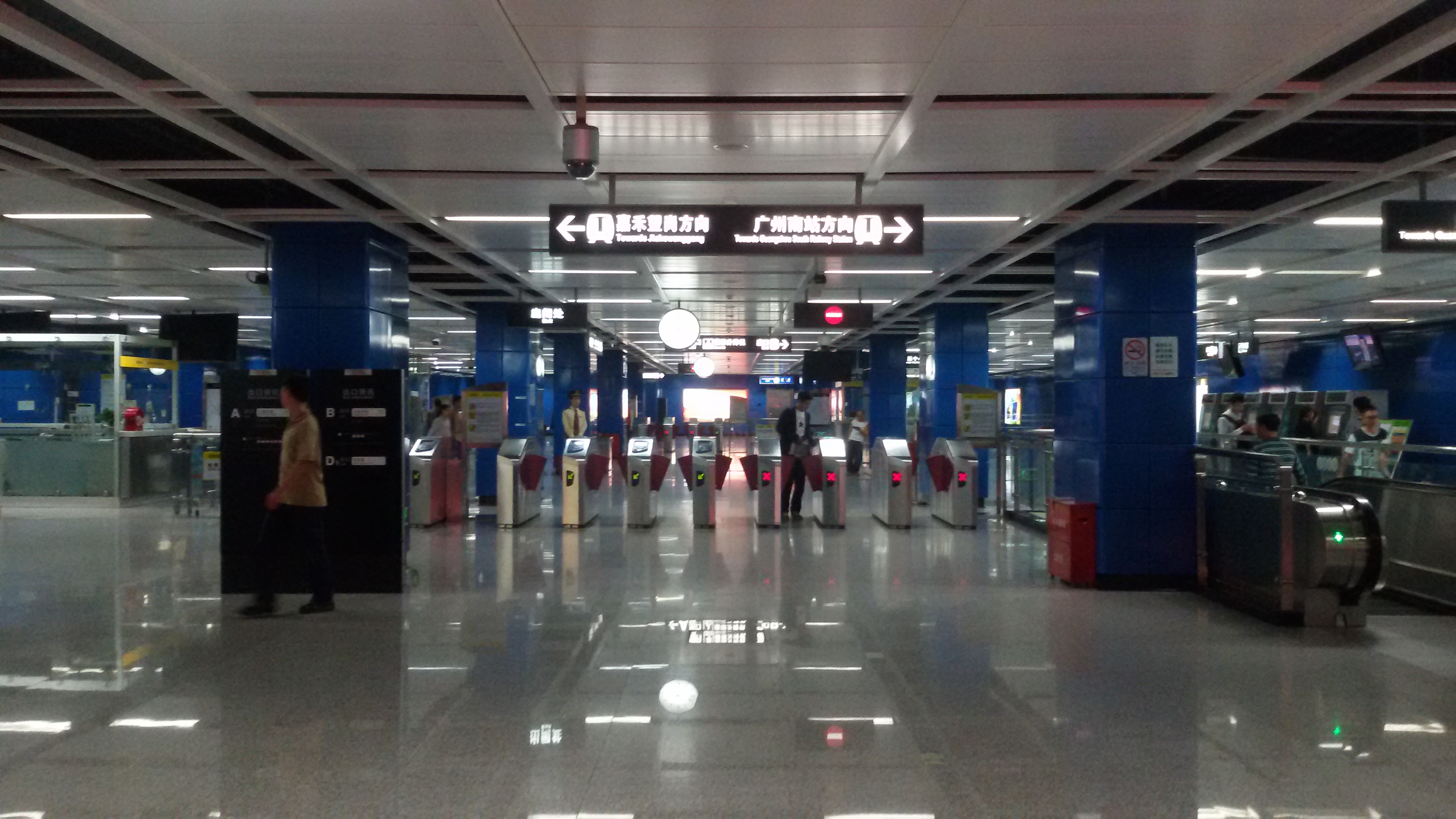 Station Concourse for Xiao-gang Station in Guangzhou Metro